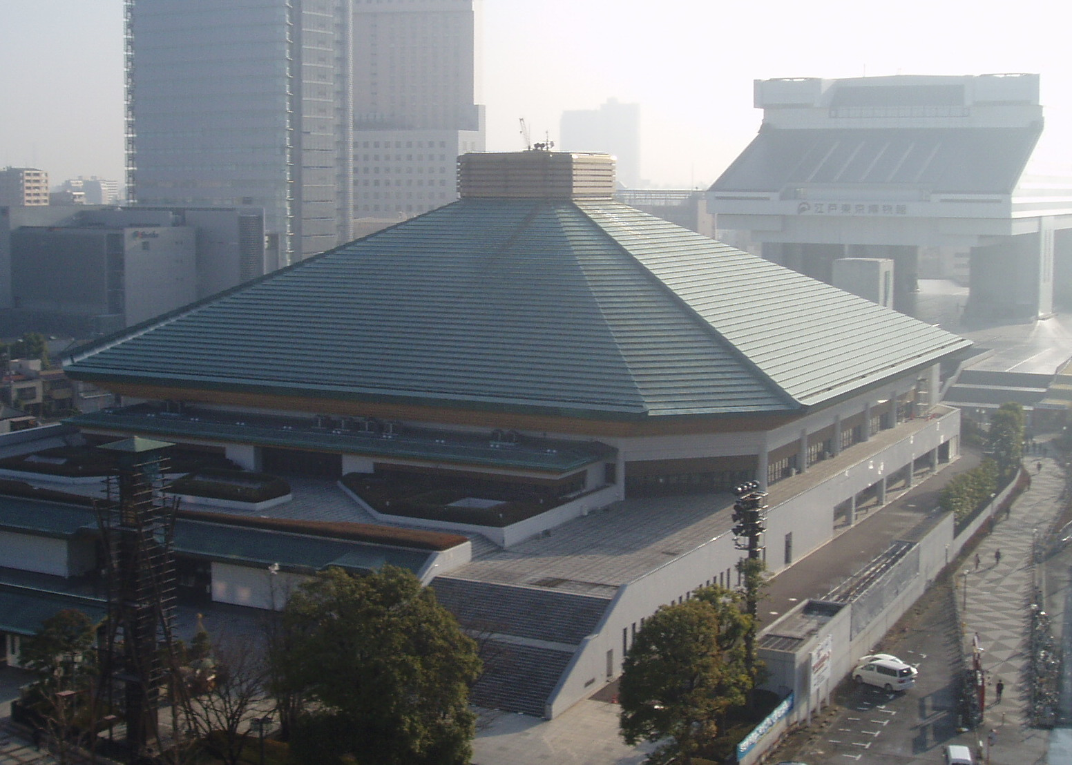 The Kokugikan (sumo hall) at Ryogoku, Tokyo. Edo-Museum in the Background. (Western view, coordinates 35°41'49"N, 139°47'36"E)